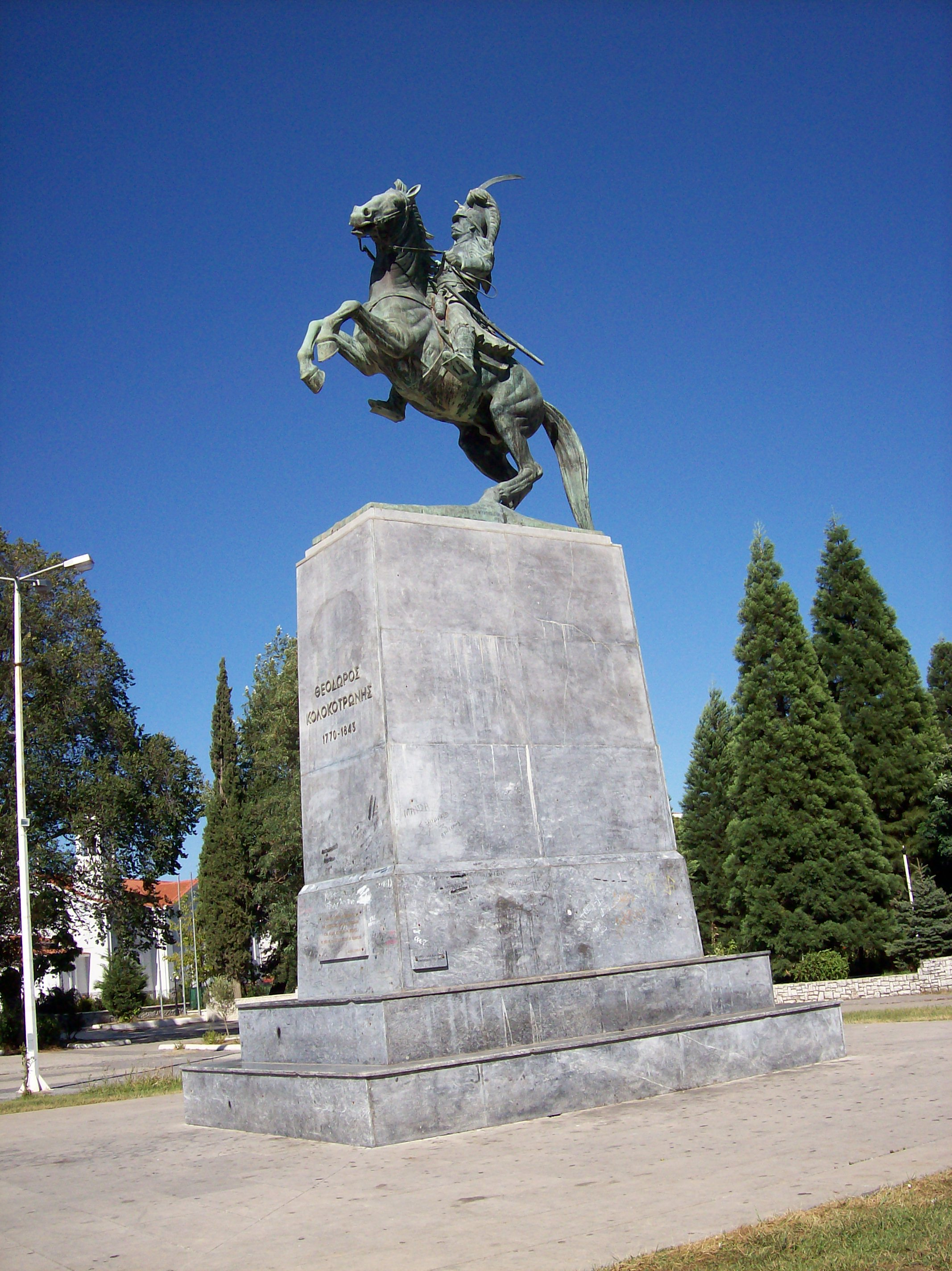 Statue of General Theodoros Kolokotronis of the Greek War of Independence in Tripoli, Greece.